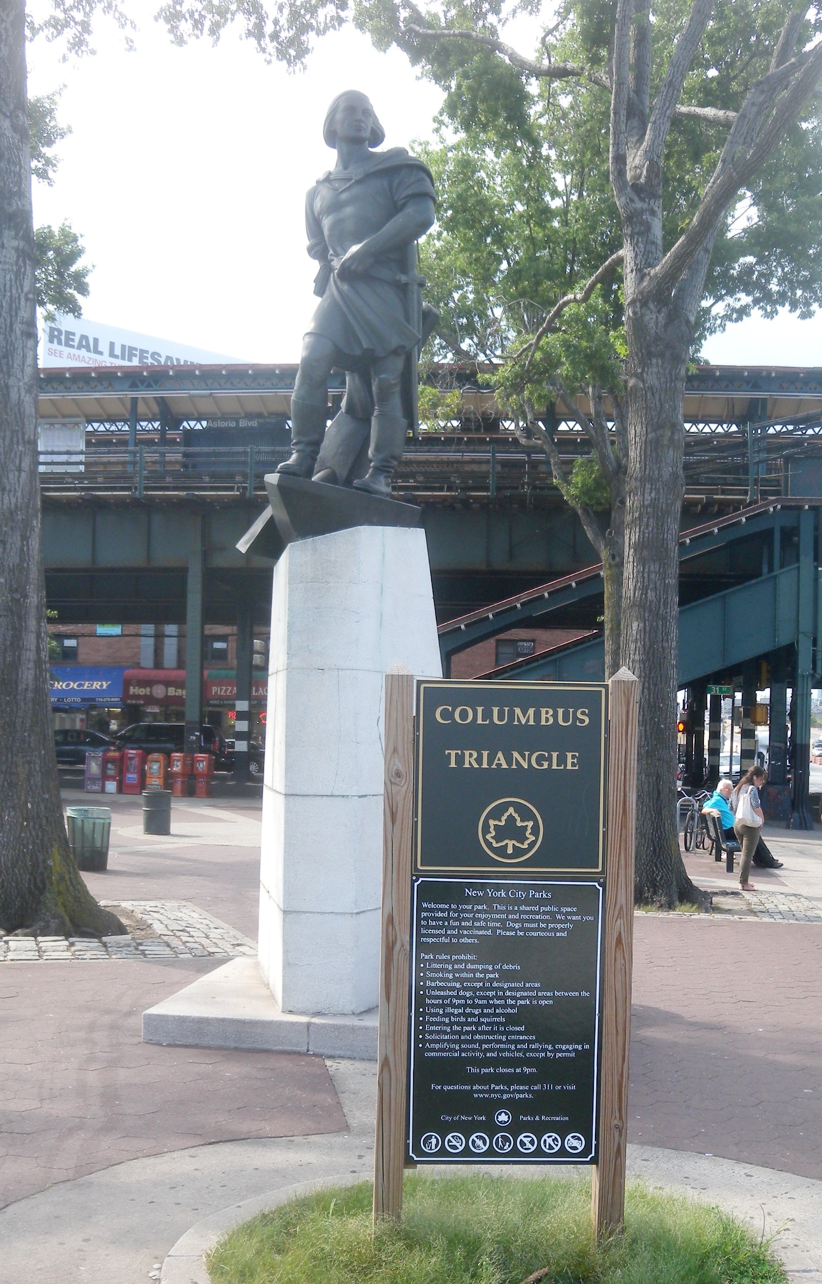 Looking west at Columbus statue and sign in front.